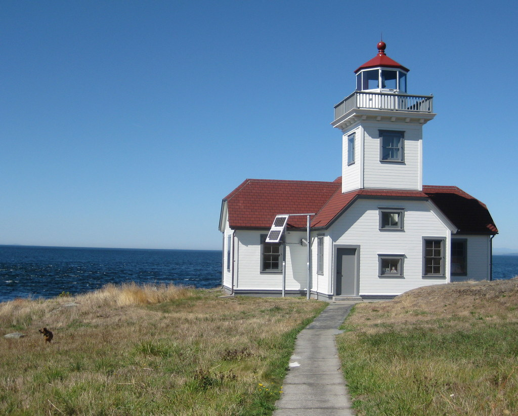 Lighthouse on Patos Island, in the San Juan Islands in Washington State.